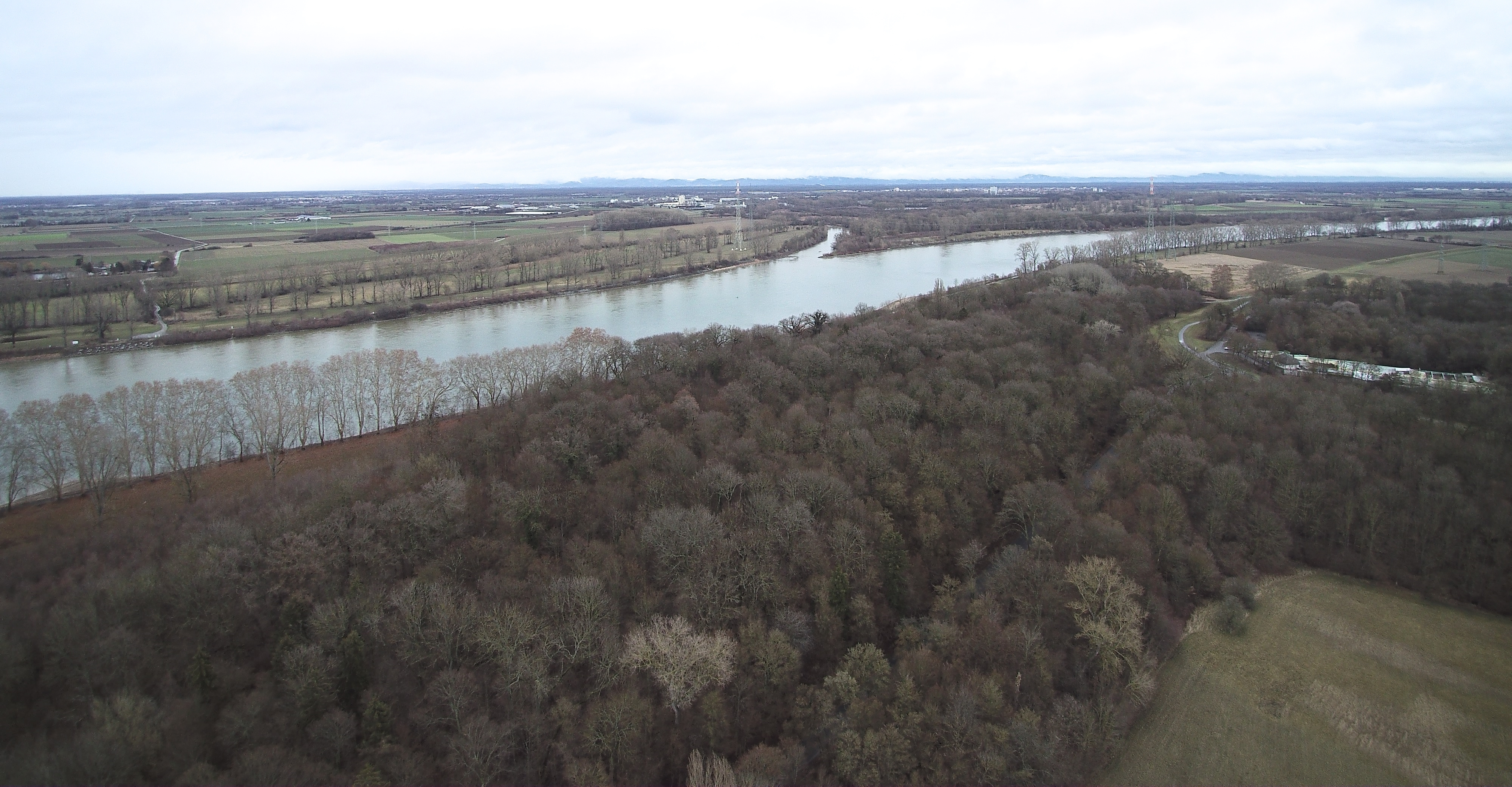 Airview Typhoon H (example)